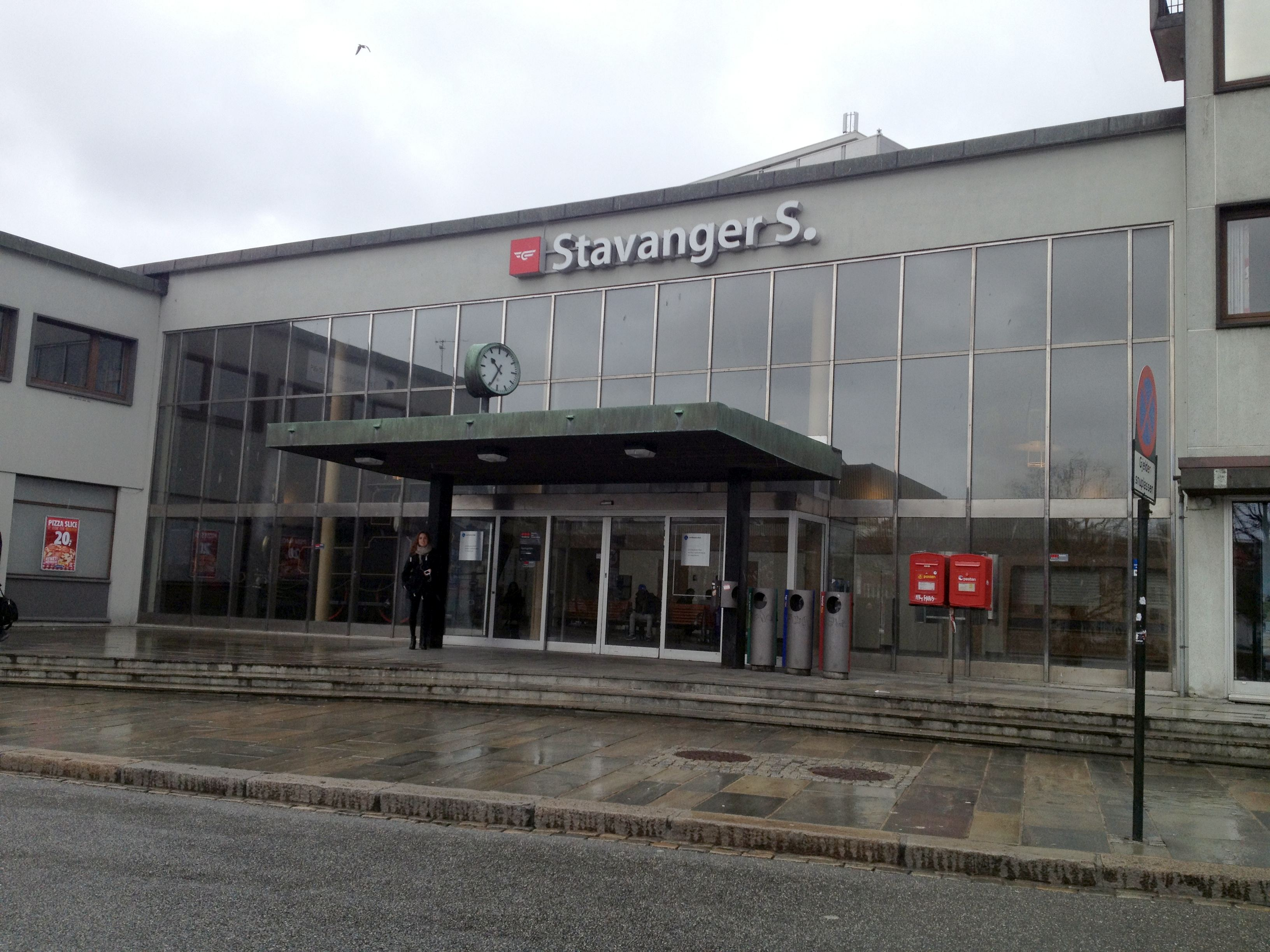 Stavanger stasjon